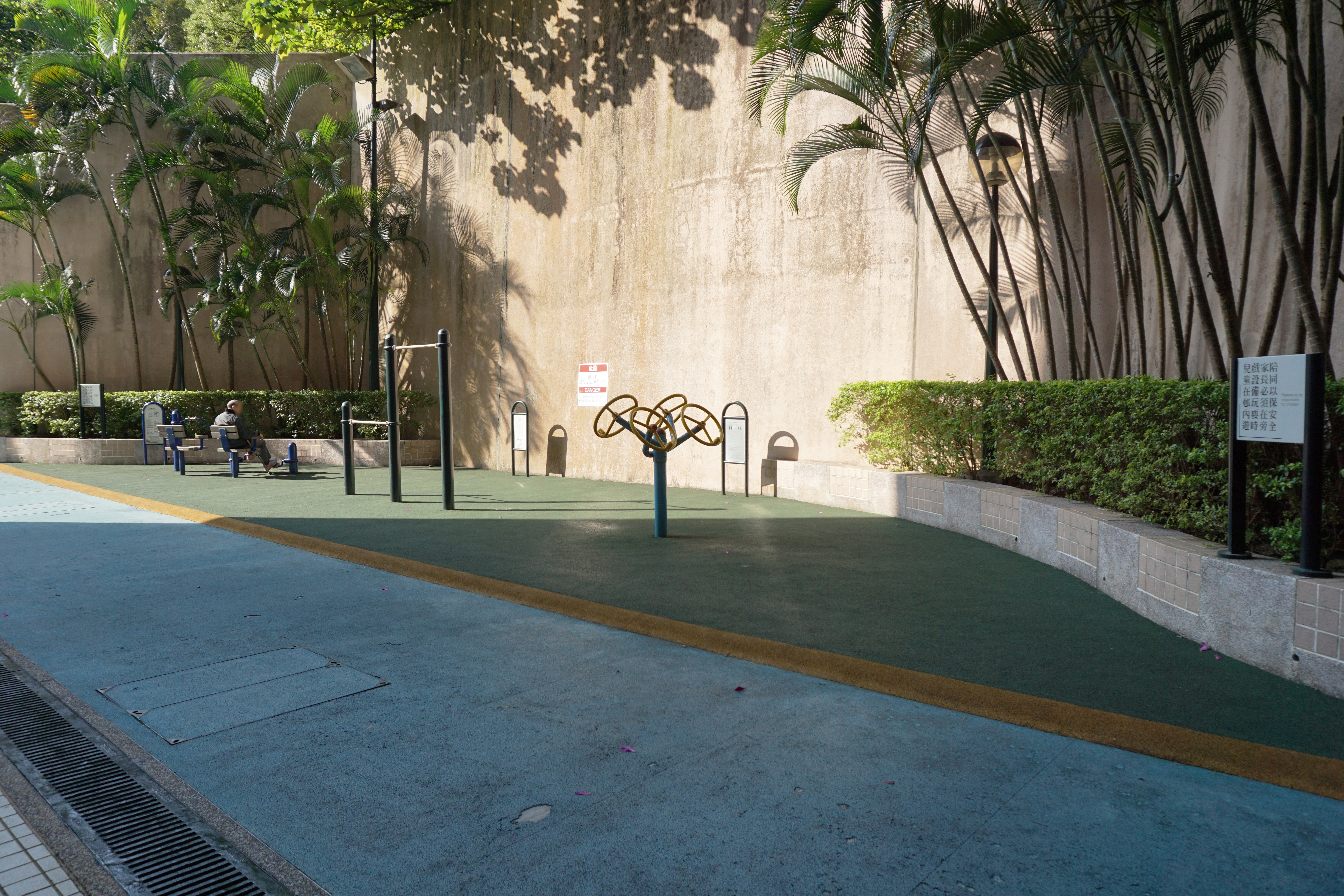 Cheong Shing Court in Fanling, Hong Kong.